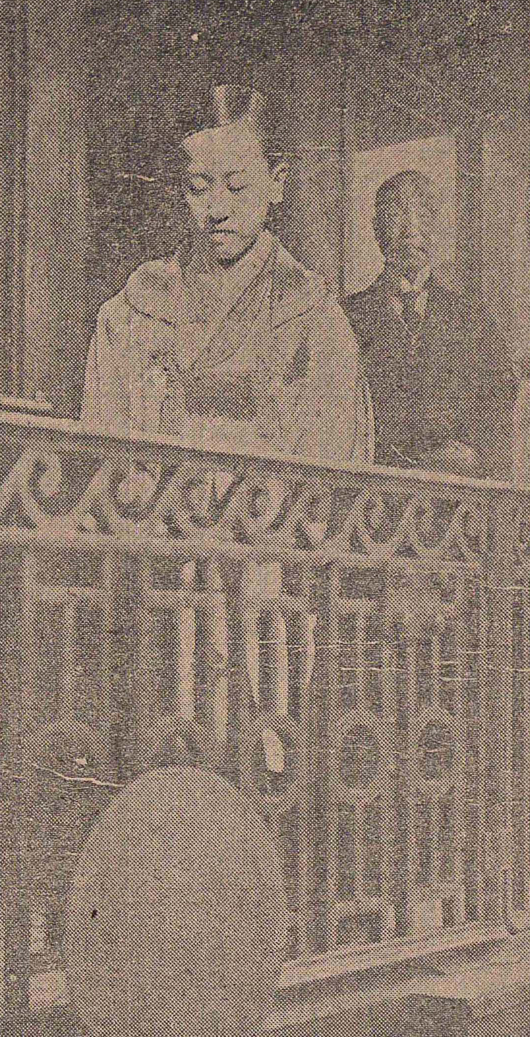 Princess Deokhye